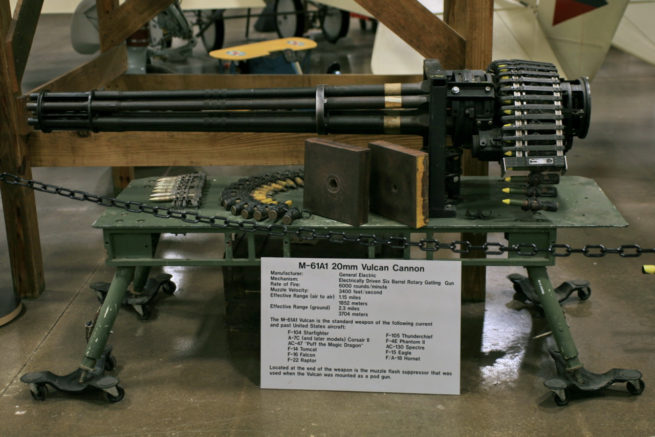 The M61 Vulcan is a 20 mm hydraulically or pneumatically driven, six-barreled, air-cooled, electrically fired Gatling-style cannon with an extremely high rate of fire. It has been the principal cannon armament of United States military aircraft for five decades. The M61 was originally produced by General Electric, and after several mergers and acquisitions is currently produced by General Dynamics.